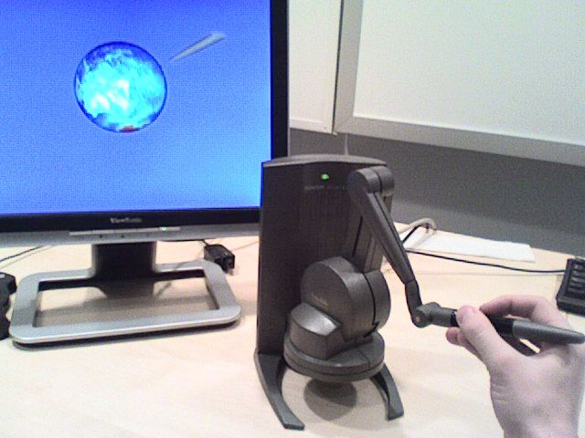 PHANTOM haptic device made by SensAble Technologies.